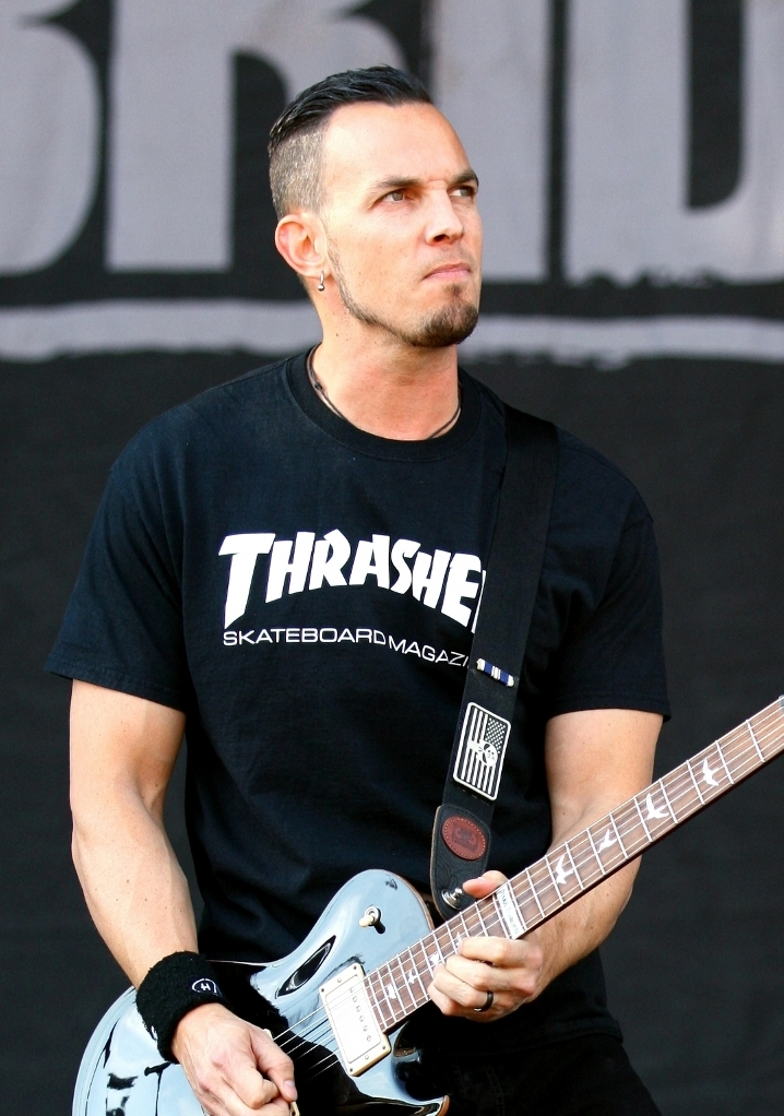 A cropped version of File:14-06-06 RiP Alter Bridge Mark Tremonti 3.JPG, made for infobox purposes